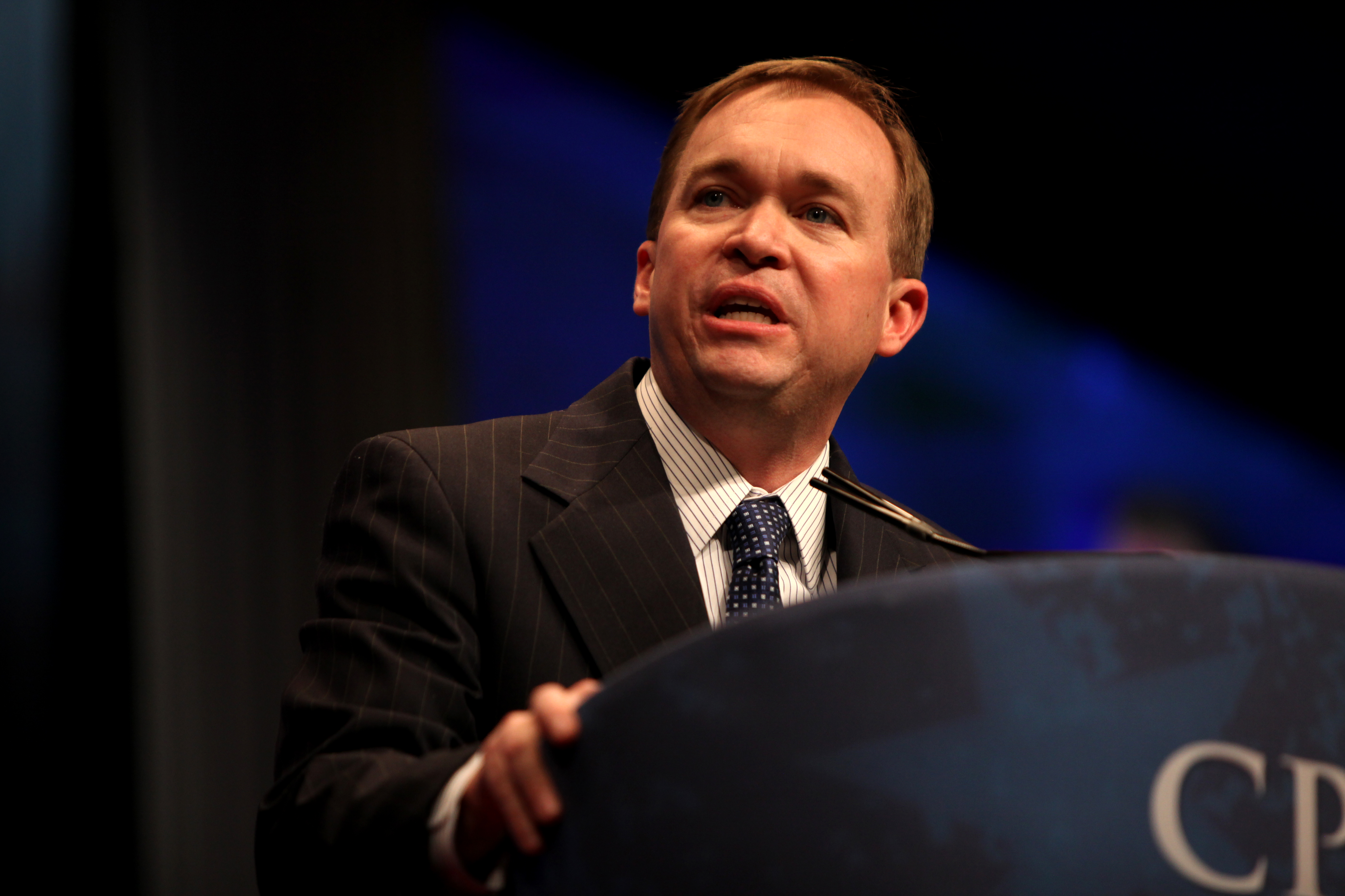 Mick Mulvaney speaking at an event in Washington, D.C.